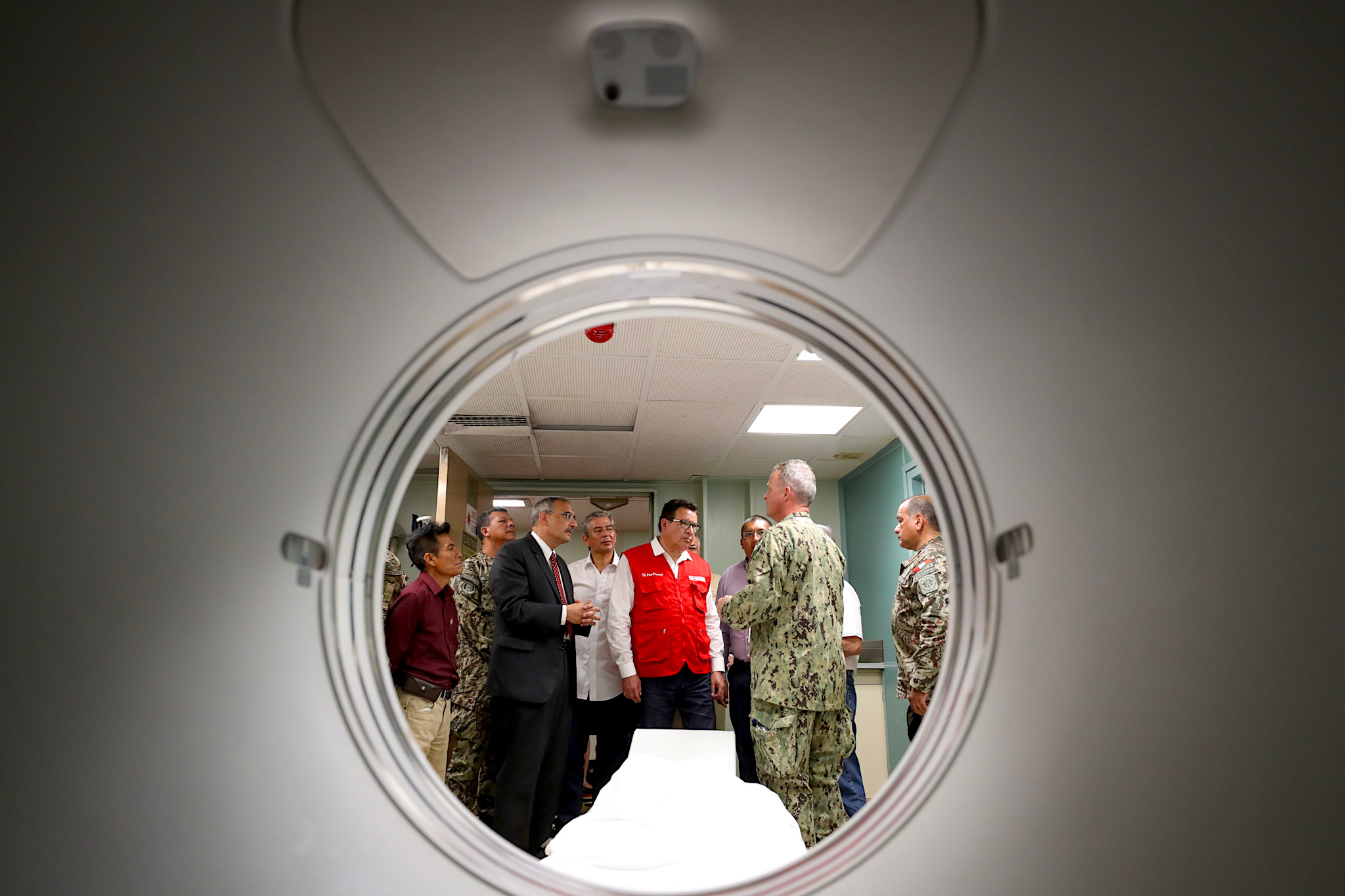 Peruvian Minister of Defense José Modesto Huerta Torres visits the USNS Comfort during Operation Enduring Promise.